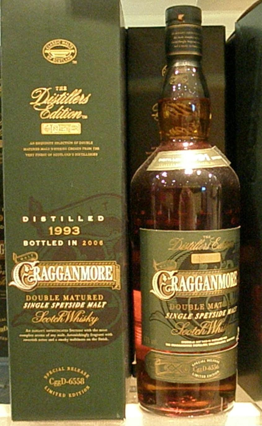 bootle of whisky Cragganmore